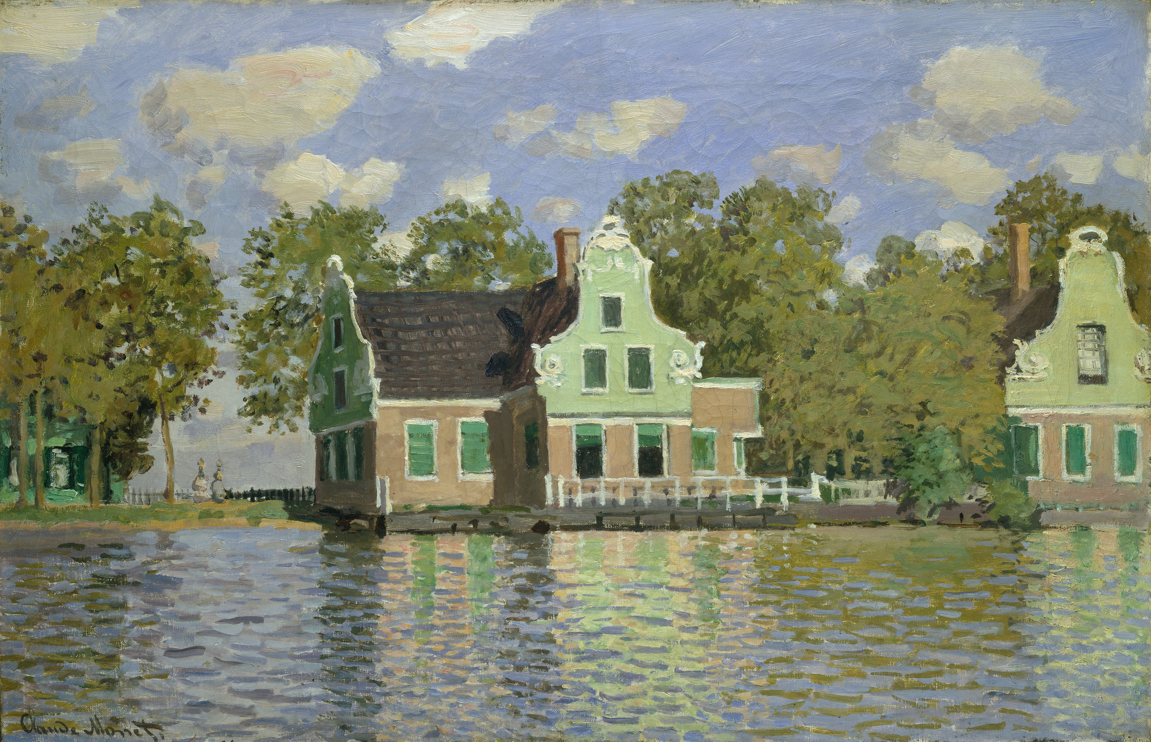 The House on the River Zaan in Zaandam